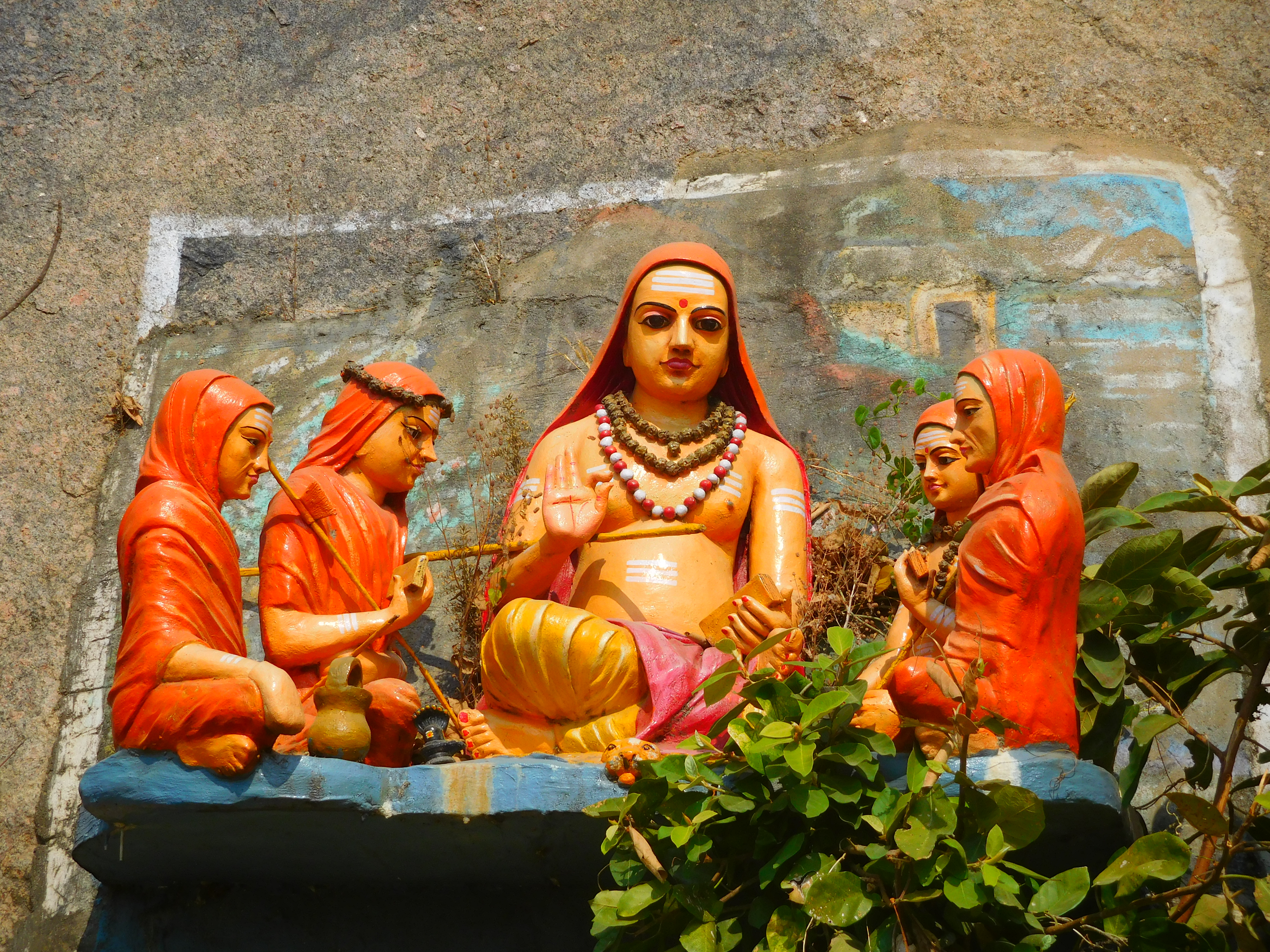 Sculpture Ādi Śaṅkarācārya with his disciples in Waraṅgal, Telaṅgāṇa, India